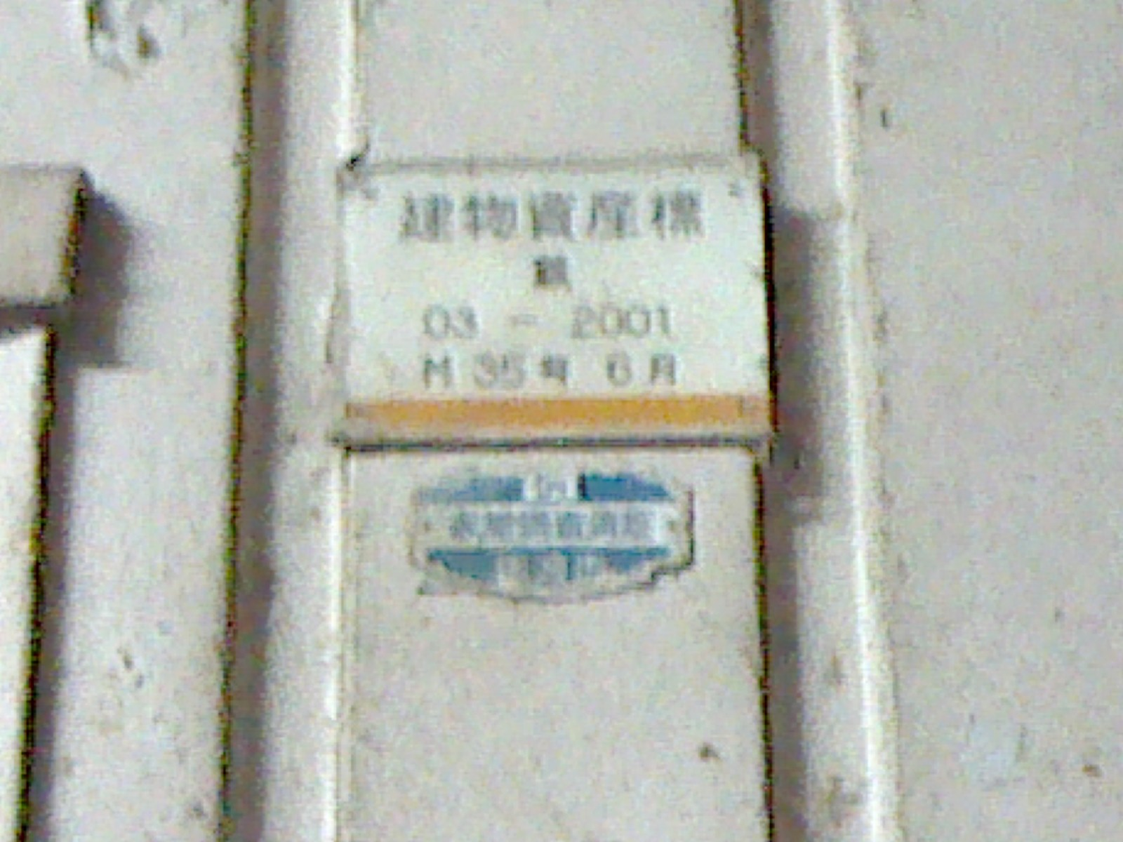 The asset mark of the Kamado Station,builded in june 1902.